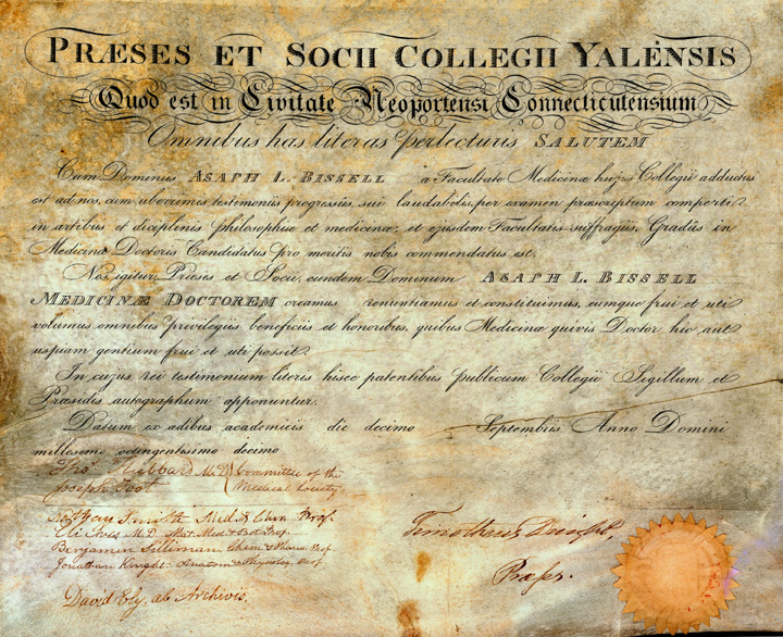 Diploma awarded by Yale College in 1815 to Asaph Leavitt Bissell (1797–1850) of Suffield, Connecticut, member of the second graduating class of Yale medical school. The diploma carries the signatures of all four professors of the medical institution, as well as that of Yale President Timothy Dwight.